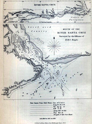 This coastal area is significant as it led Charles Darwin to an understanding of the relationship between sedimentation, crustal subsidence and related uplift of the nearby coast that has a stepped profile suggesting periodic uplift.